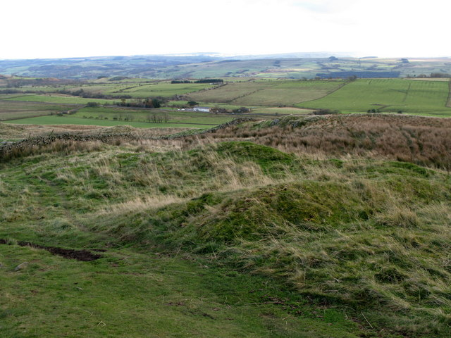 (The site of) Milecastle 40. The long white building in the middle distance is the Twice Brewed Inn 46724 in NY7566 on the Military Road (B6318).